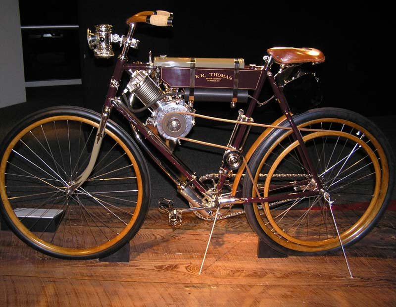 1900 Thomas motorcycle - The Art of the Motorcycle exhibition - Memphis. 1.8 hp, top speed 25 mph. Lent by His Excellency Sheikh Saud Al-Thani